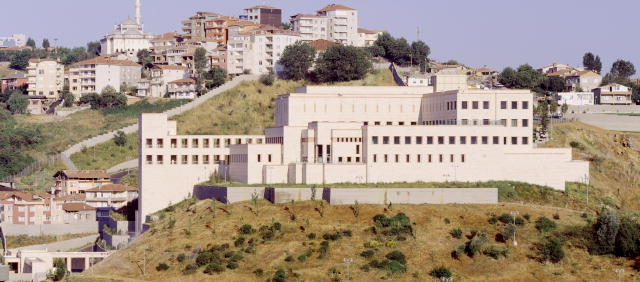 U.S. Consulate General in Istanbul. American Consulate General in Istanbul.